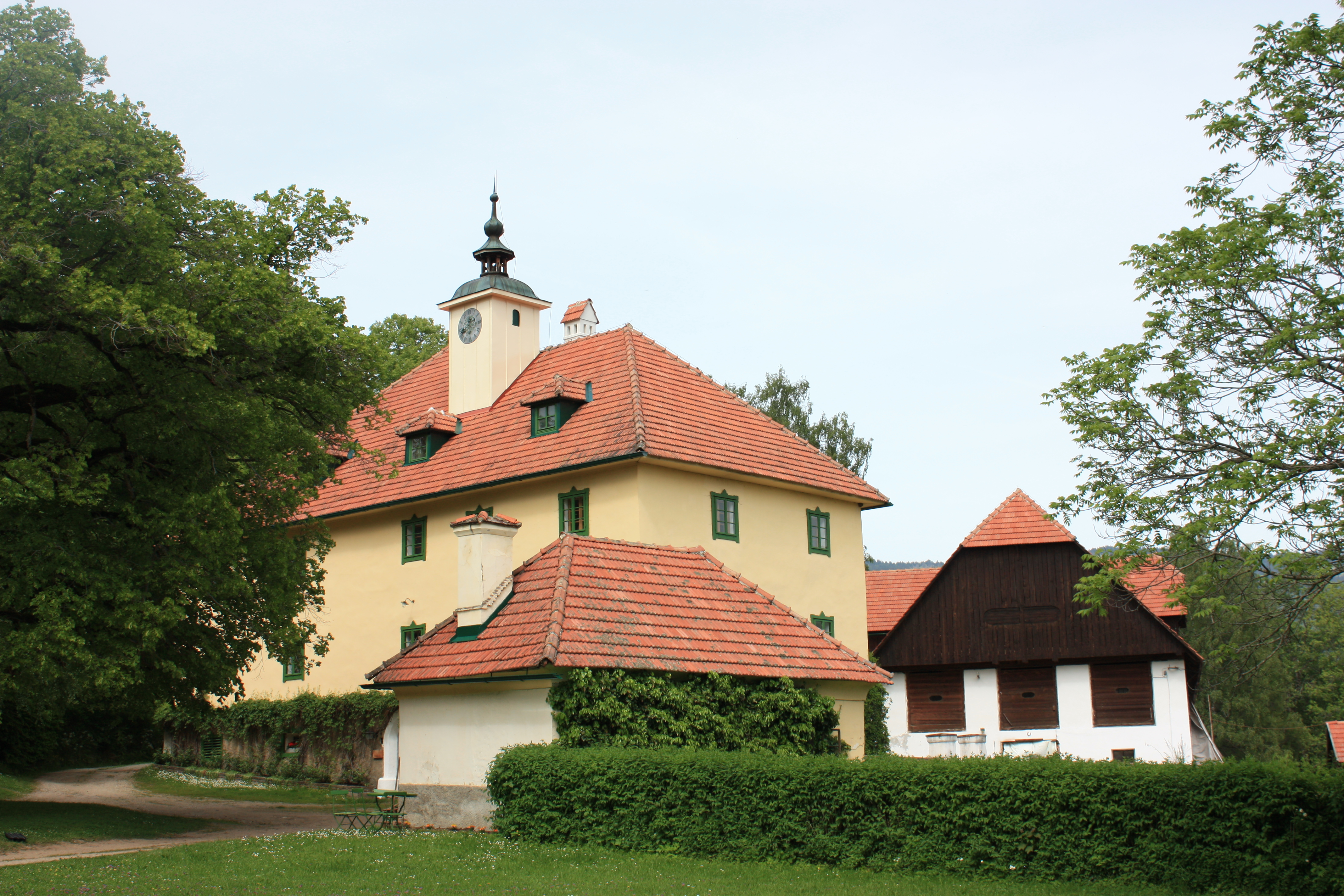 Castle in St Johann am Pressen in the community of Hüttenberg